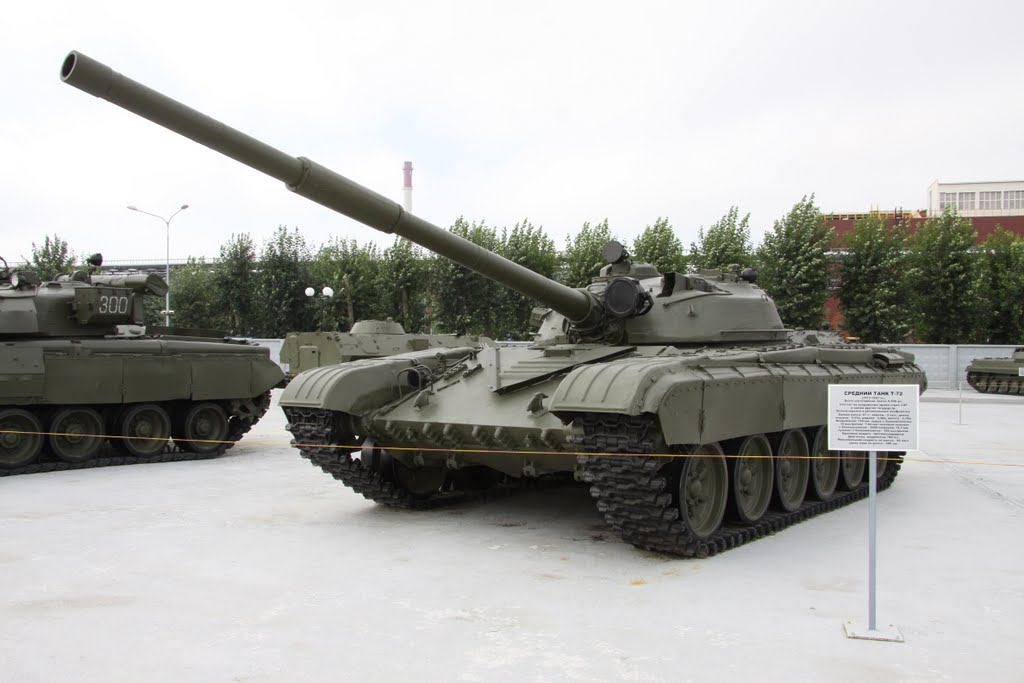 Verkhnyaya Pyshma Tank Museum 2011